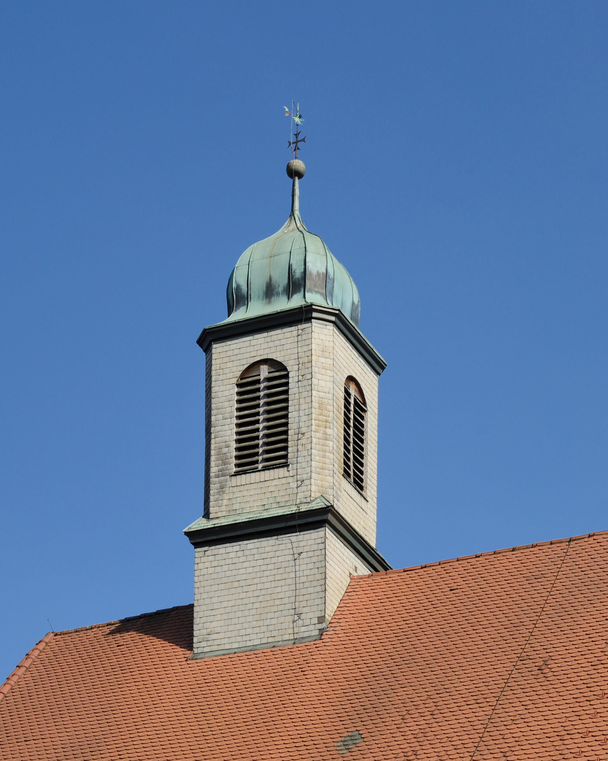 Rheinfelden: castle church Beuggen